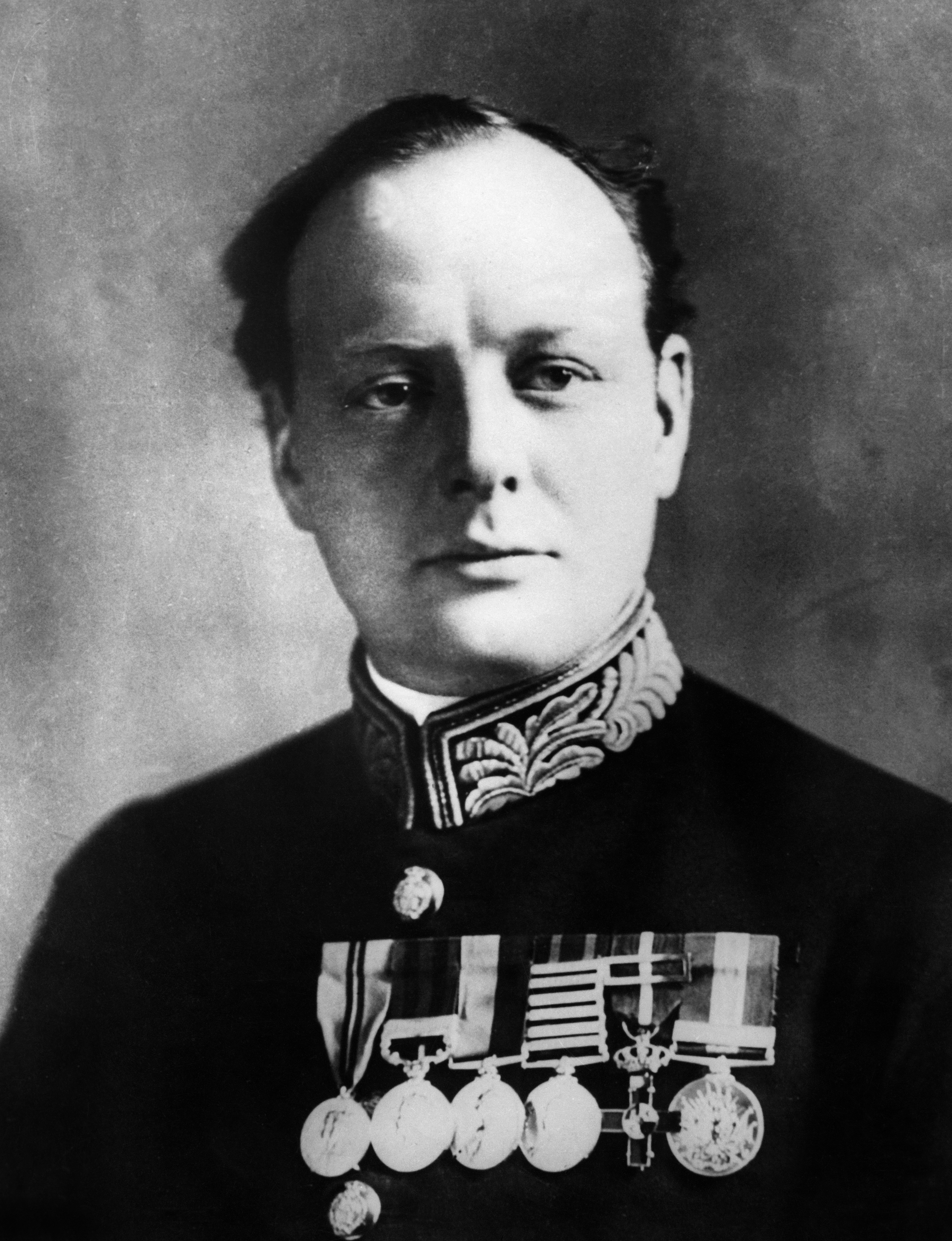 A portrait Winston Churchill in the official dress of First Lord of the Admiralty taken in 1914 at the beginning of World War I.